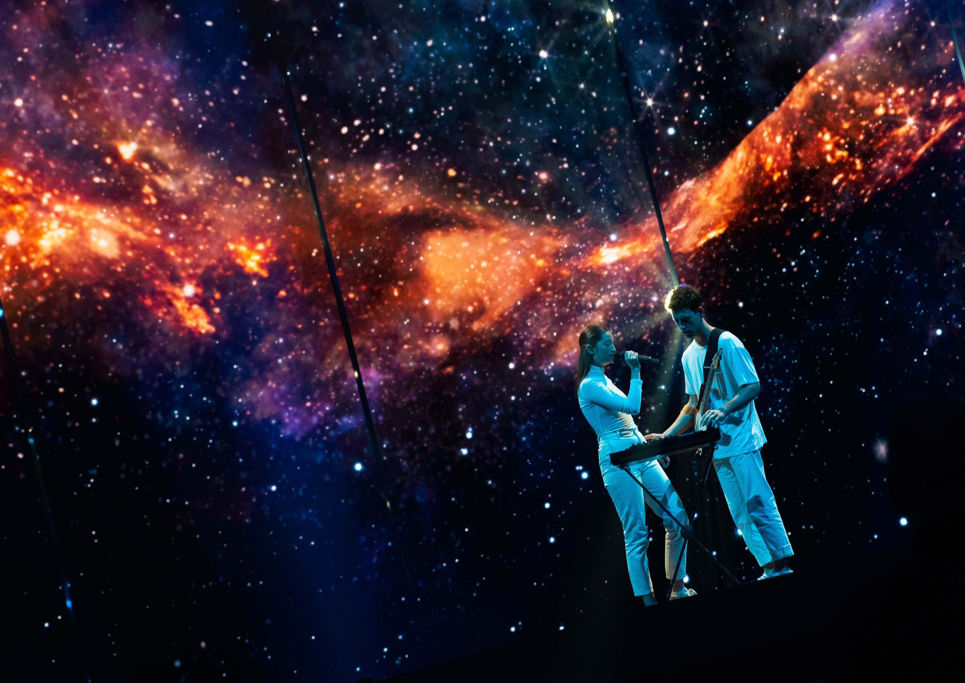 Zala Kralj & Gašper Šantl representing Slovenia with the song "Sebi" during a rehearsal before the first semi-final of the Eurovision Song Contest 2019 in Tel-Aviv.